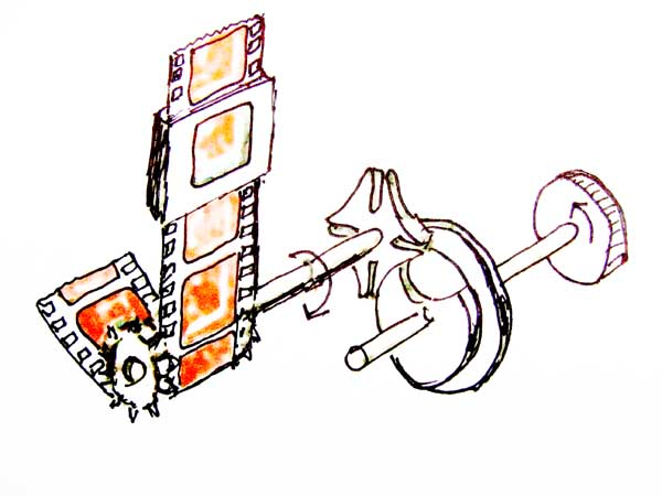 Geneva drive and intermittent mechanism